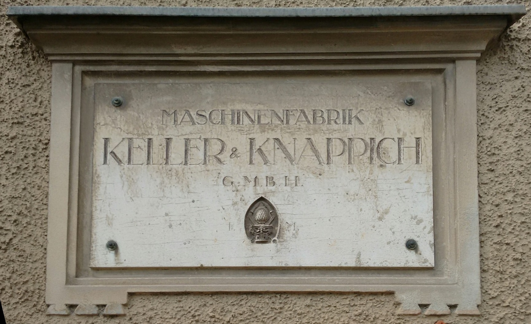 stone plate on first company site of KUKA